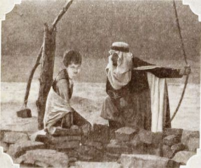 Still from the American drama film Barbary Sheep (1917) with Elsie Ferguson and Pedro de Cordoba, on page 20 of the September 8, 1917 Exhibitors Herald.